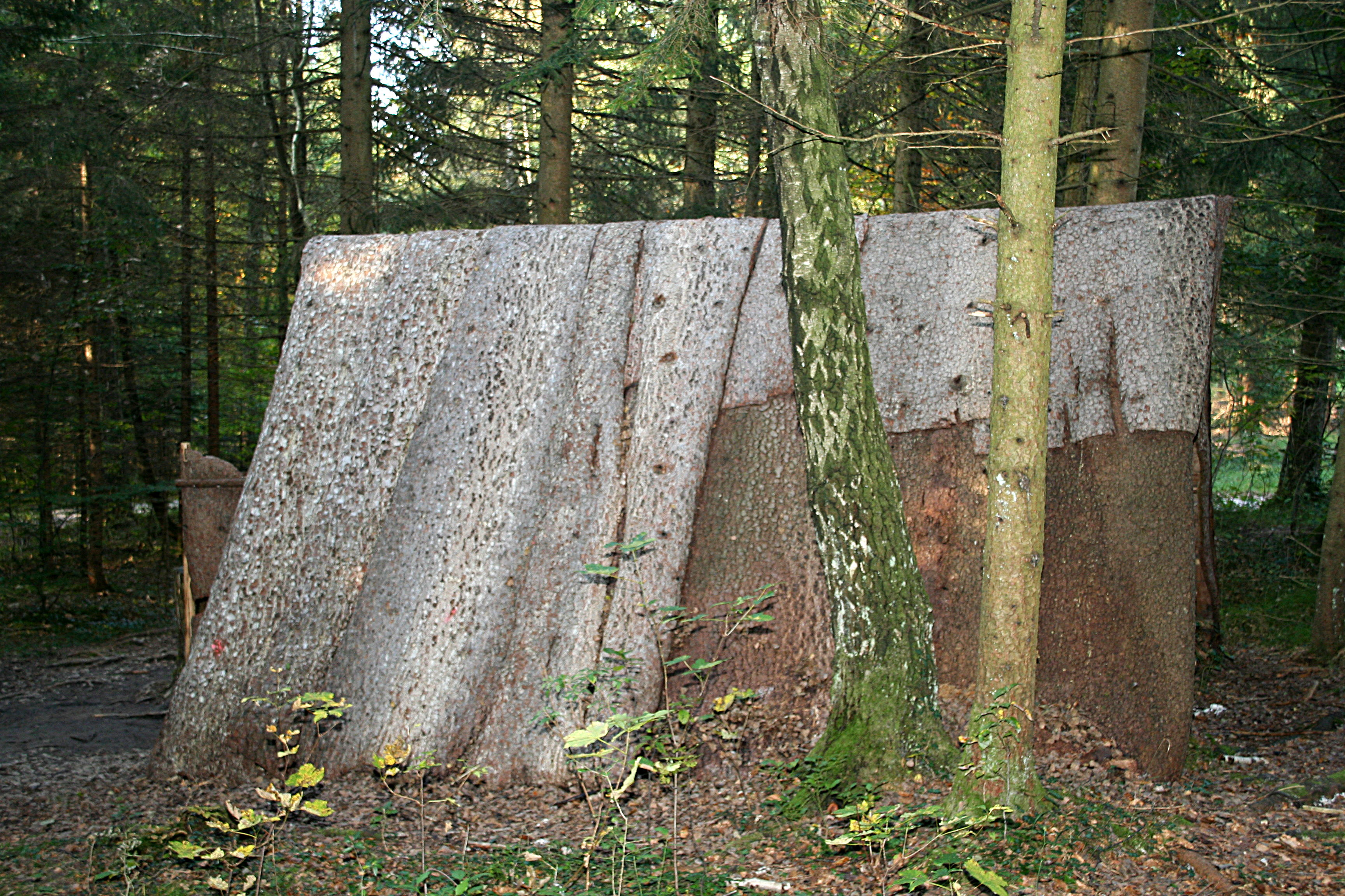 A rebuild of a cabin of lumberjacks from the 19 century. The cabin is made from bark. Photographed at "Salzburger Freilichtmuseum"